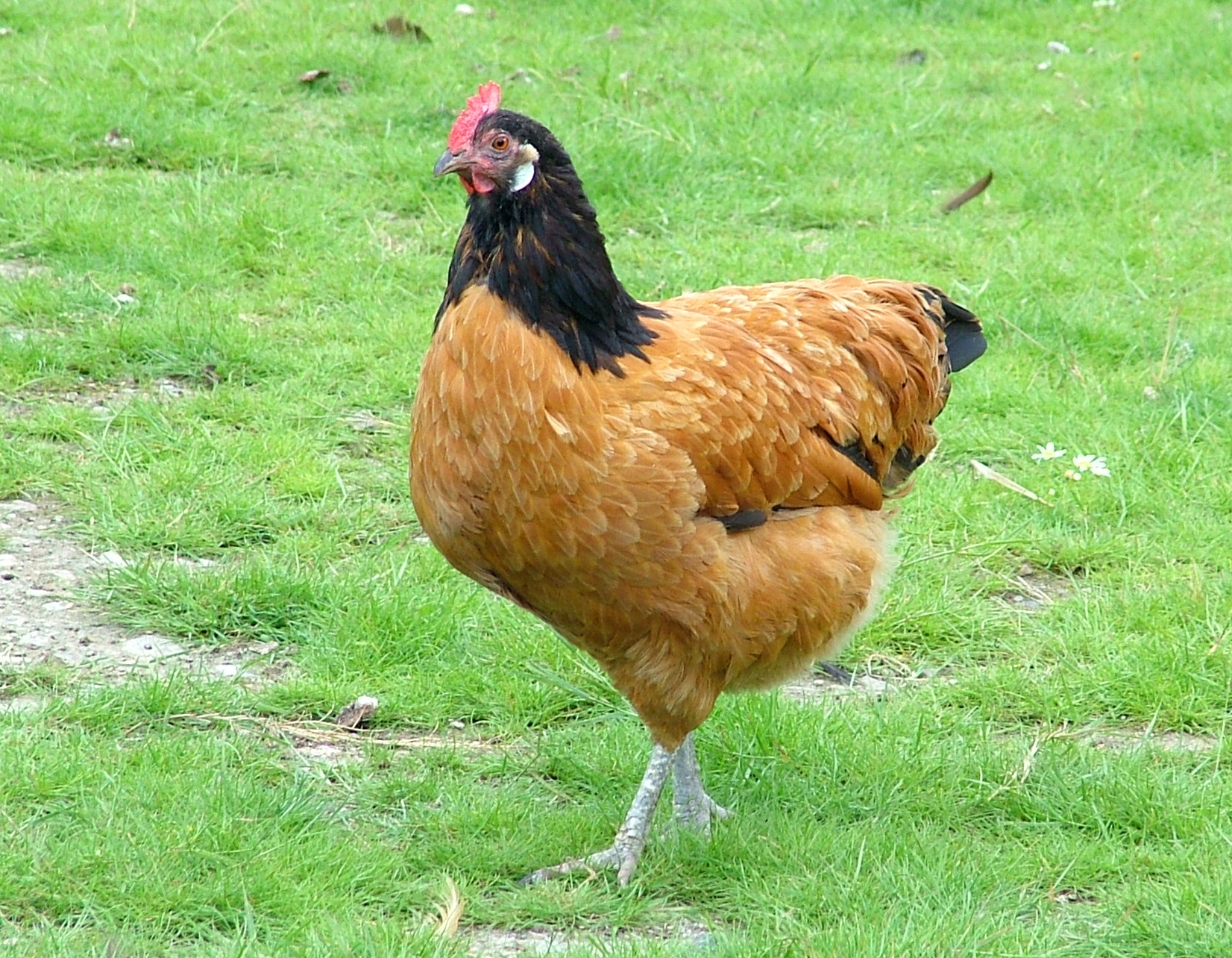 Vorwerkhuhn at the BUGA 2009 in Schwerin.